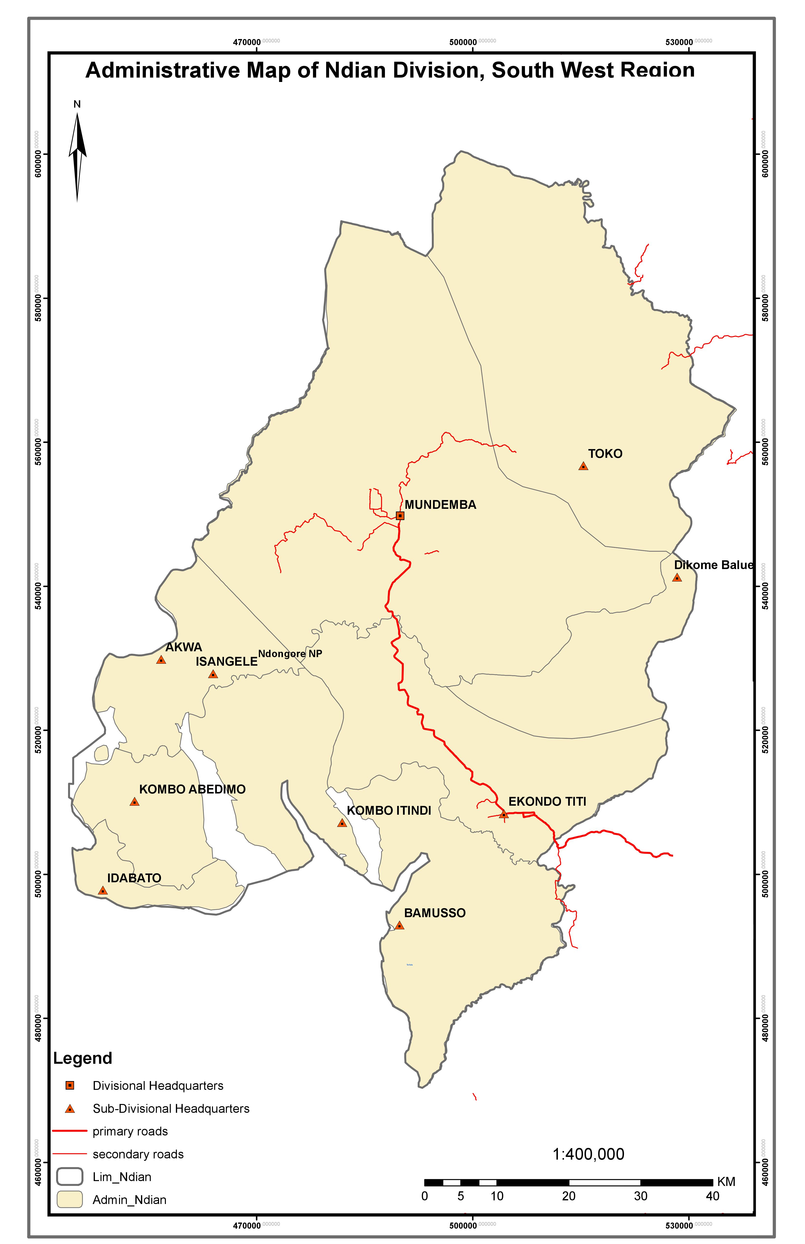 Administrative Map of Ndian division, Southwest Region, Cameroon.